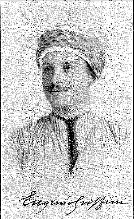 Eugenio Griffini (Italian Orientalist) in Cairo, 1899